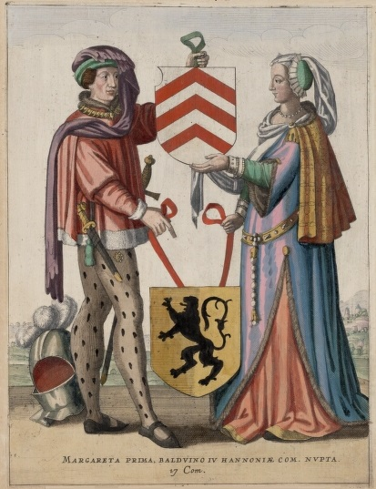 Gravin Margaretha met haar echtgenoot Boudewijn van Henegouwen - Afbeelding uit Flandria Illustrata (1641)